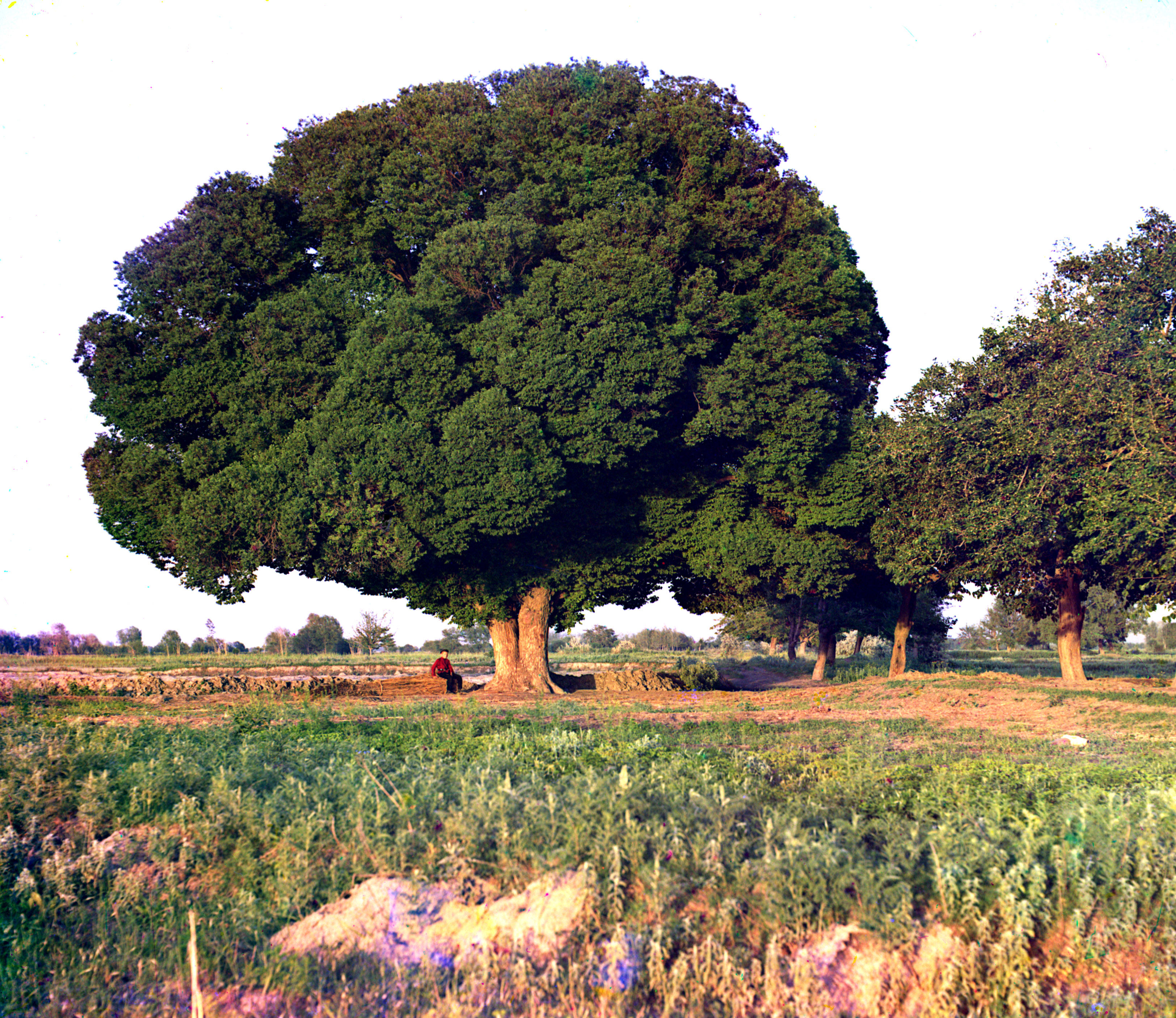 Elm tree in Samarkand, Russian Turkestan (present-day Uzbekistan), Imperial Central Asian Russia.